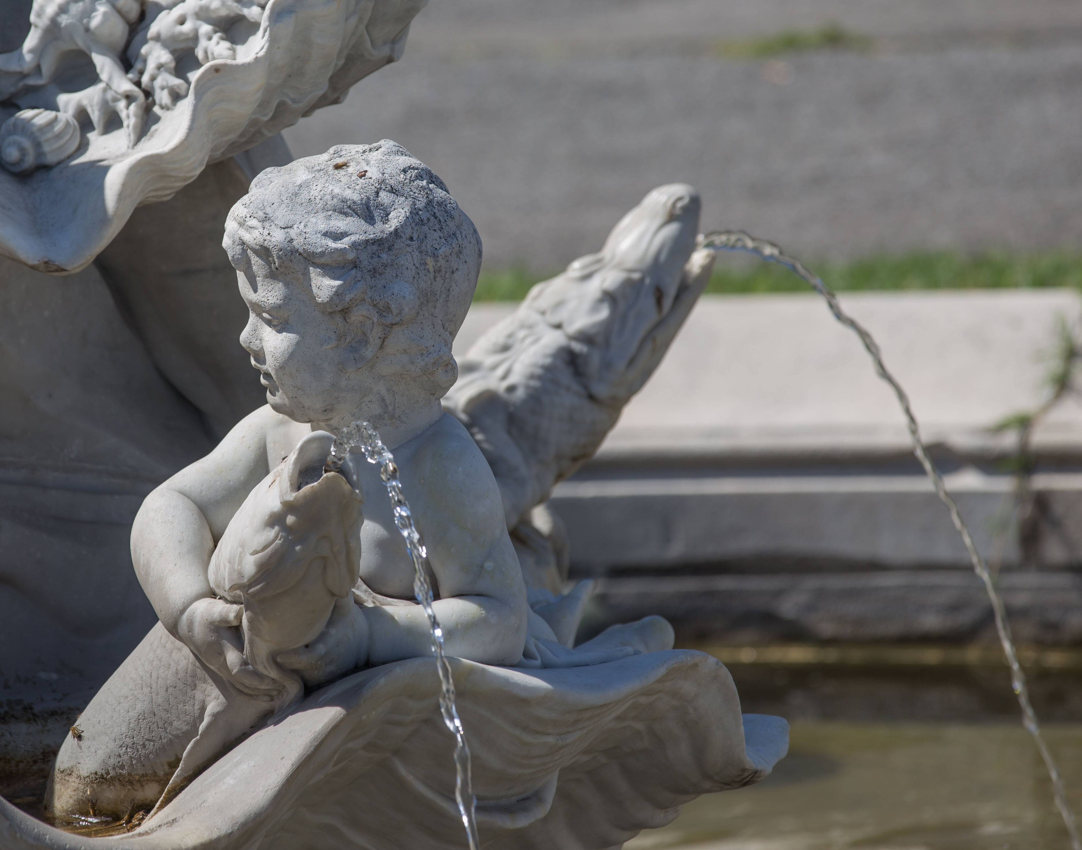 Fountain D Kunsthistorisches Museum, Artist: Edmund Paul Andreas Hofmann von Aspernburg. This is one of four Triton- and Najad fountains at the Maria-Theresien-Square in Vienna. The making of this work was supported by Wikimedia Austria. For other files made with the support of Wikimedia Austria, please see the category Supported by Wikimedia Österreich.